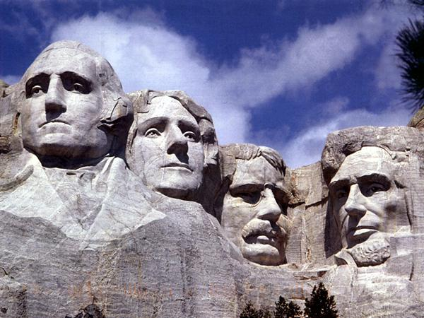 The faces of (left to right) George Washington, Thomas Jefferson, Theodore Roosevelt, and Abraham Lincoln on Mount Rushmore National Memorial. From Image:Mountrushmore.jpg